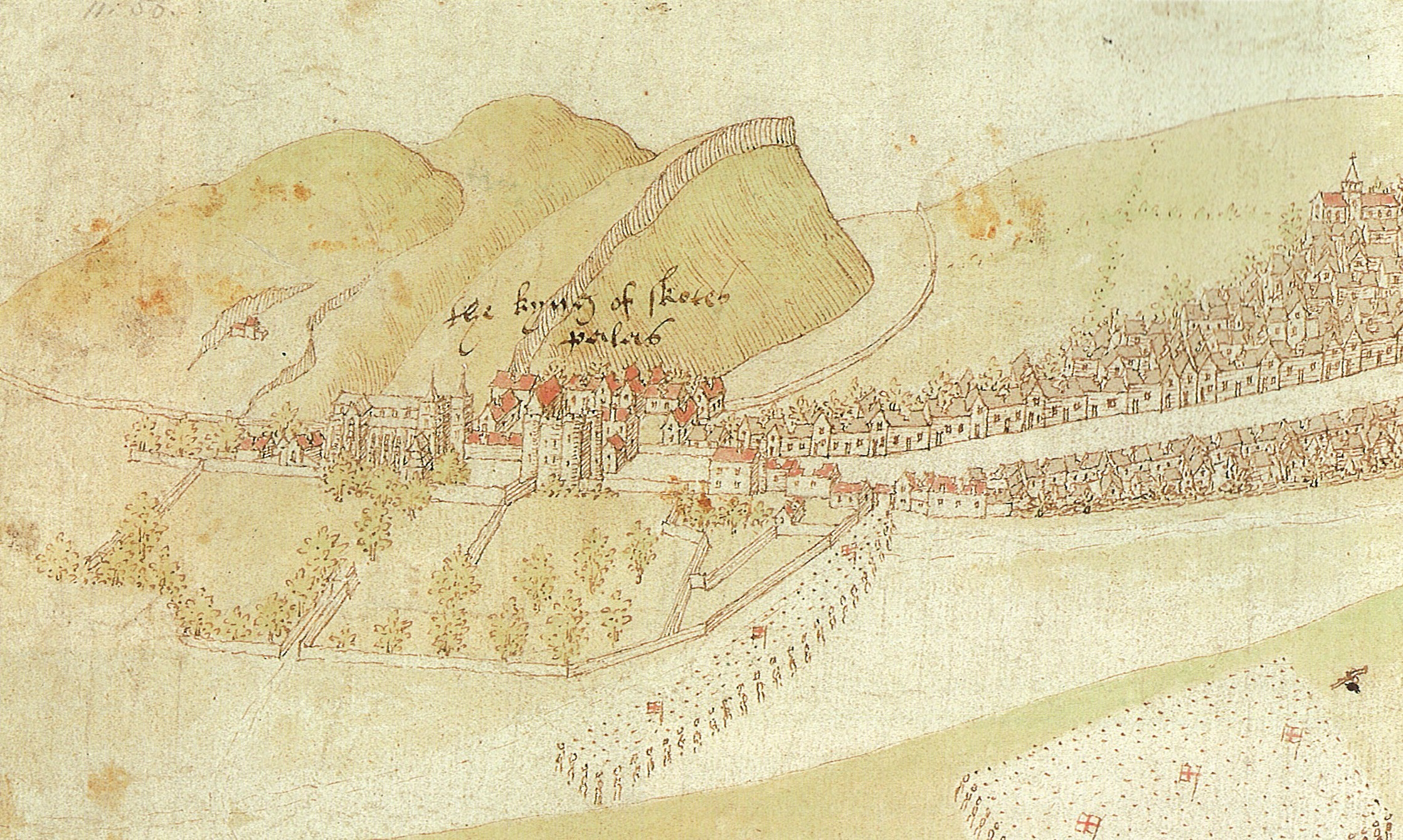 Detail from the so-called 'Hertford sketch' of Edinburgh in 1544, showing Holyrood Palace, described as 'the kyng of Skotts palas', Arthur's Seat and the Canongate The earl of Hertford led a punitive expedition against Edinburgh on the orders of Henry VIII, following the Scots' repudiation of the Treaty of Greenwich by which the infant Mary, Queen of Scots, was betrothed to Prince Edward of England.